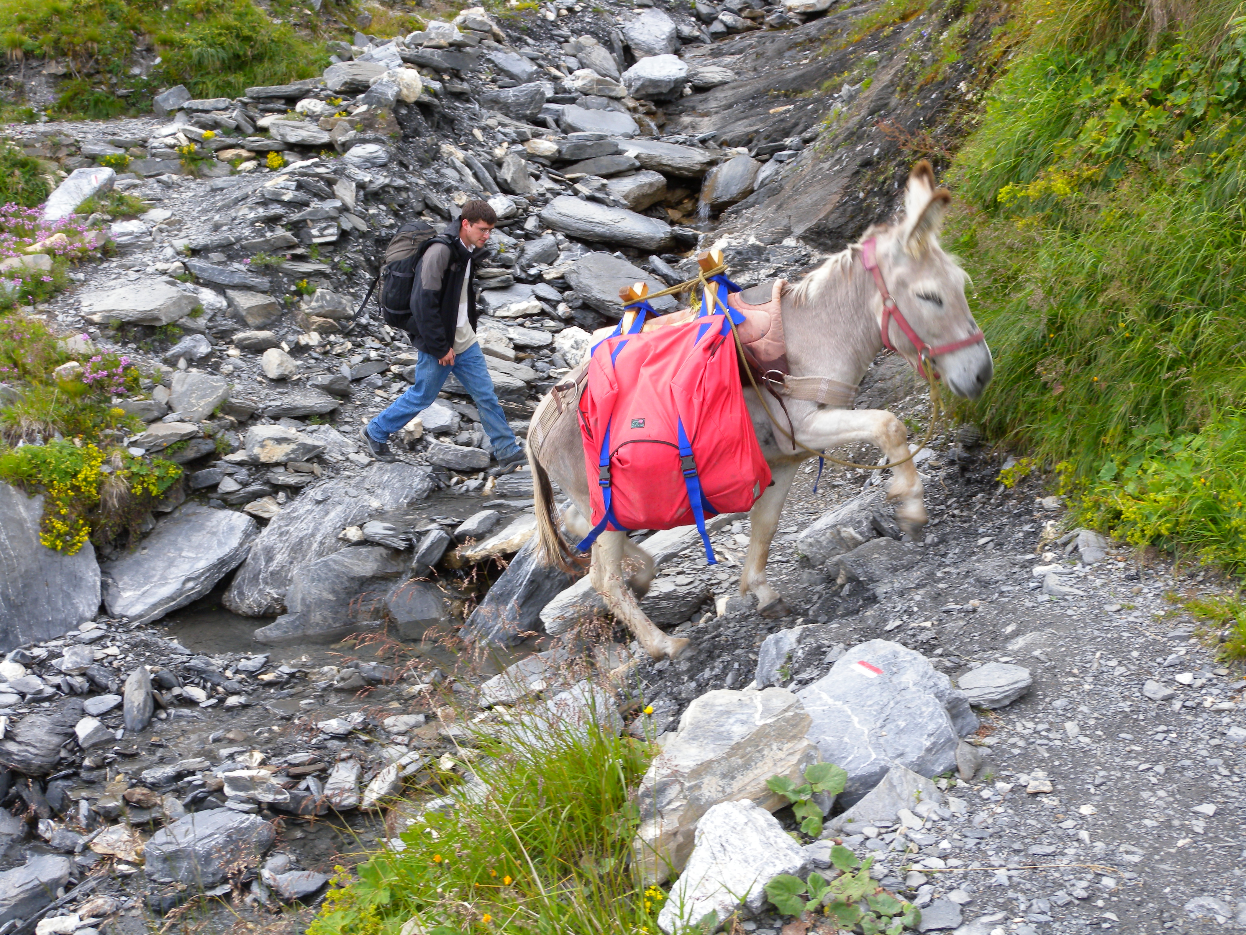 Pasture of Anterne, Sixt fer à cheval